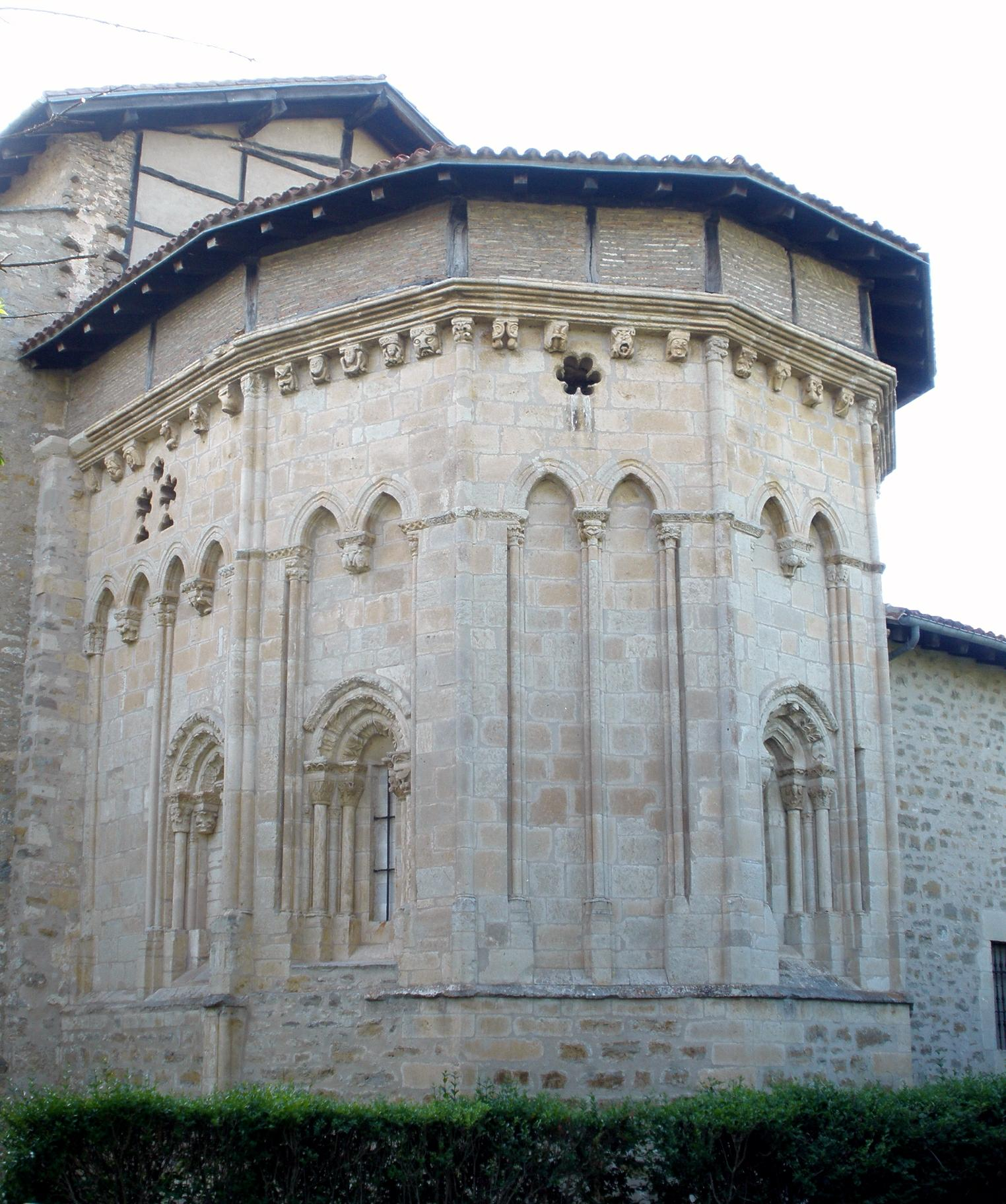 Ábside de transición, románico-protogótico, en la Iglesia de la Natividad de Nuestra Señora de Añua, municipio de Elburgo (Álava, País Vasco, España)